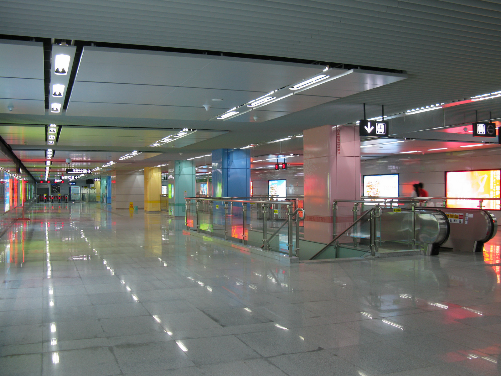 Line 1 Concourse of Shenzhen University Station, Shenzhen Metro, view towards Tao Yuan Station